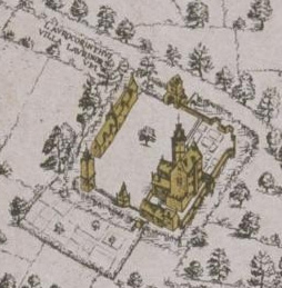 "Laurocorinthus Villa Laurinorum", detail from Marcus Gerards 1562 map of Bruges. Displays Marcus Laurinus jr.'s estate outside the city walls.